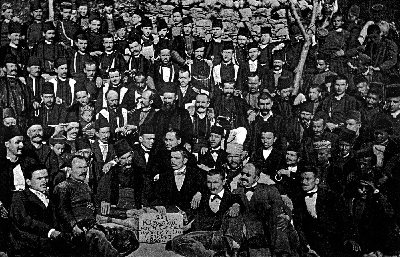 Celebration for Joseph I. Bulgarian Exarch, Debar, 1902